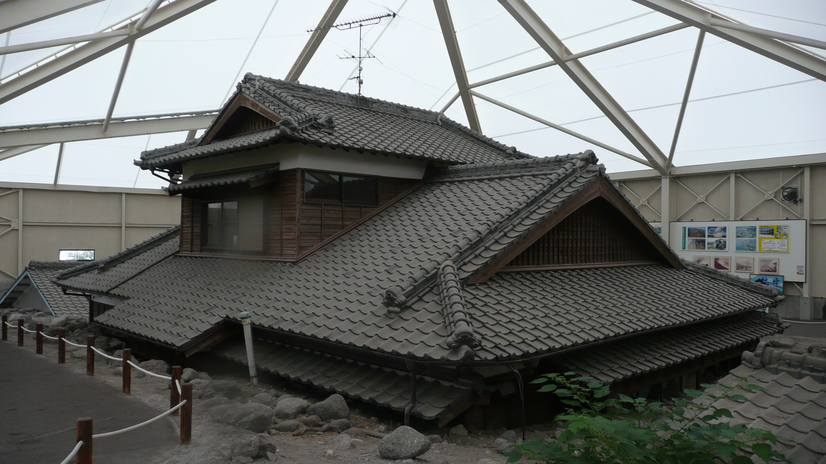 Avalanche-striken Homes Preservation Park - Michinoeki Mizunashi Honjin Fukae (Minamishimabara City, Nagasaki, Japan)